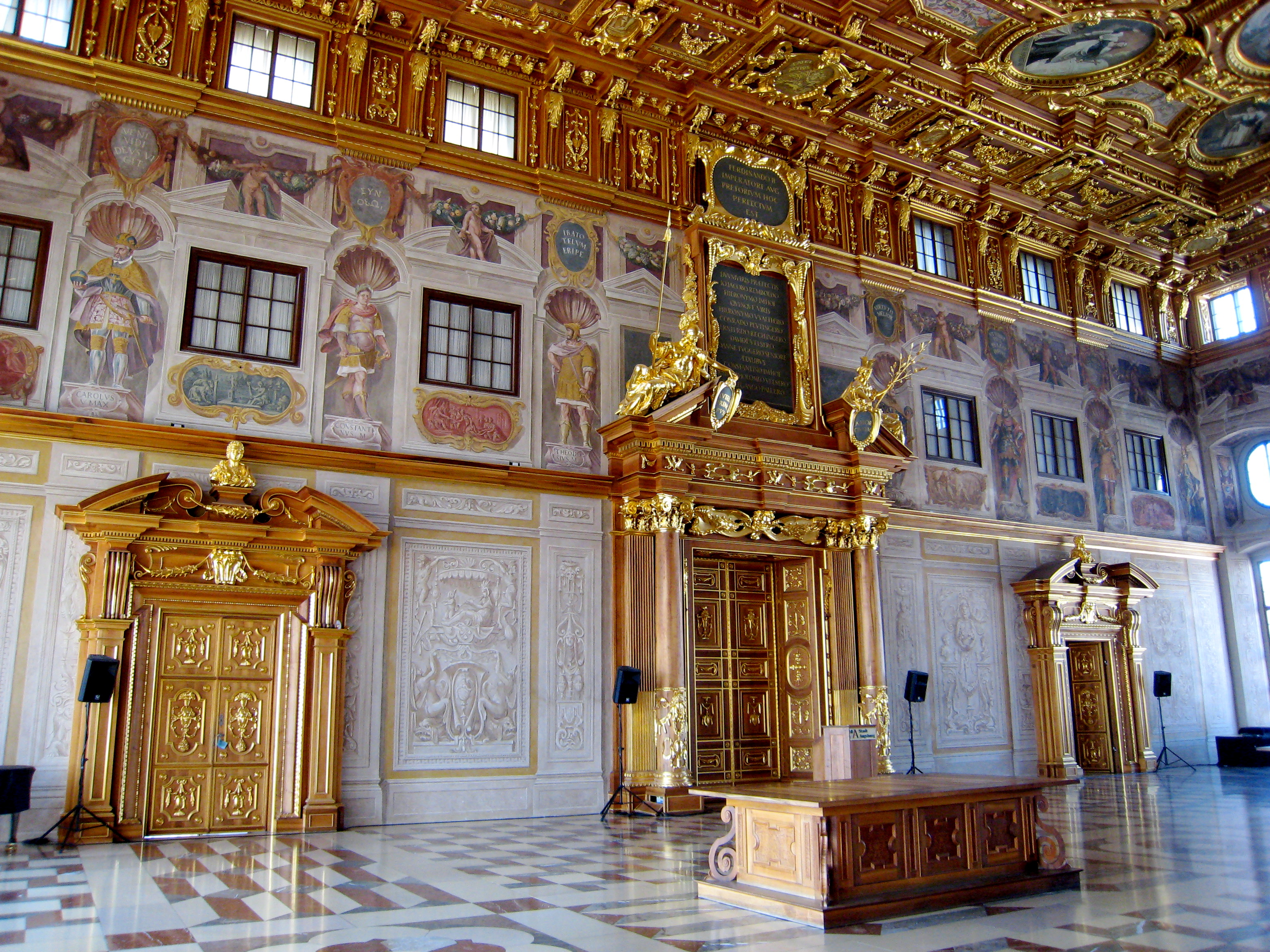 One of the side walls of the Goldener Saal in Augsburg's town hall with one large and to minor portals.